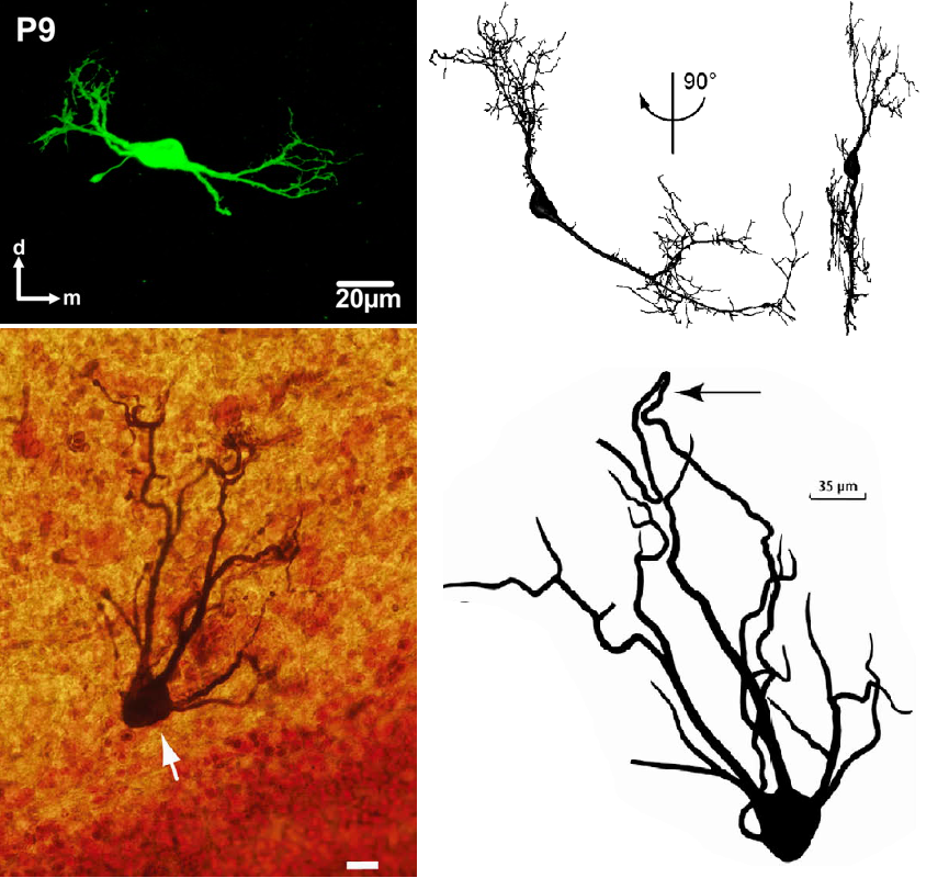 Adapted and modified "Electrophysiological properties of ventral cochlear nucleus neurons of the dog"